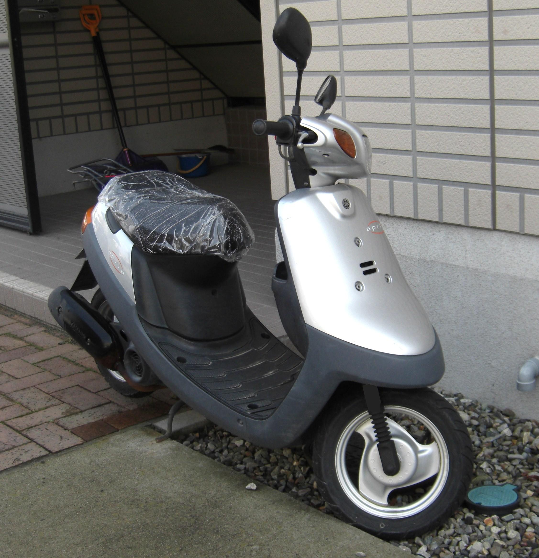 Yamaha Aprio